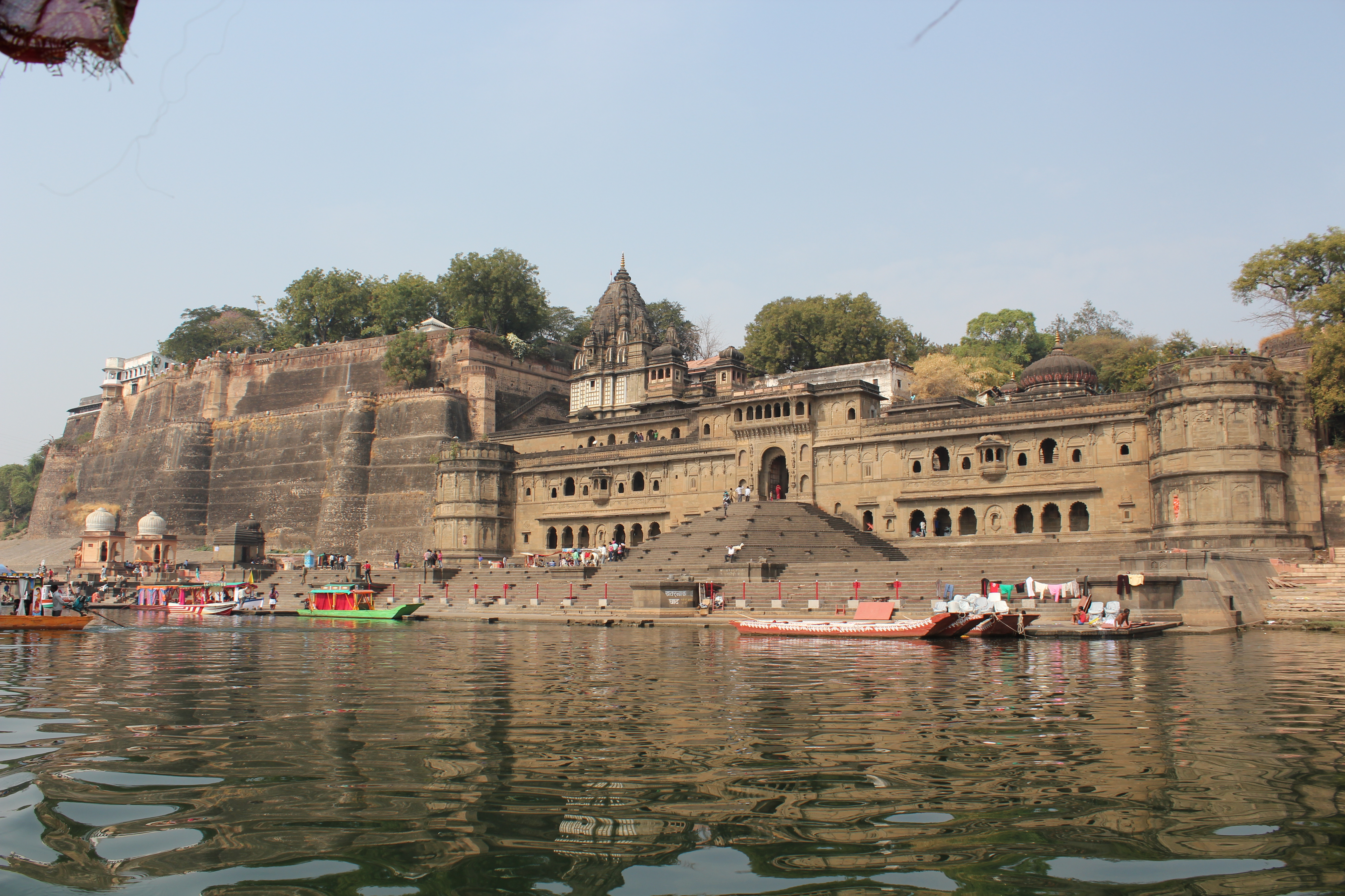 Maheshwar, Maheshwar Fort and Ahilyabai Temple Maheshwar is a city in Khargone district of Madhya Pradesh state, in central India. The city lies on the north bank of the Narmada River. It was the capital of the Malwa region during the Maratha Holkar reign till 6 January 1818, when the capital was shifted to Indore by Malhar Rao Holkar III. (source